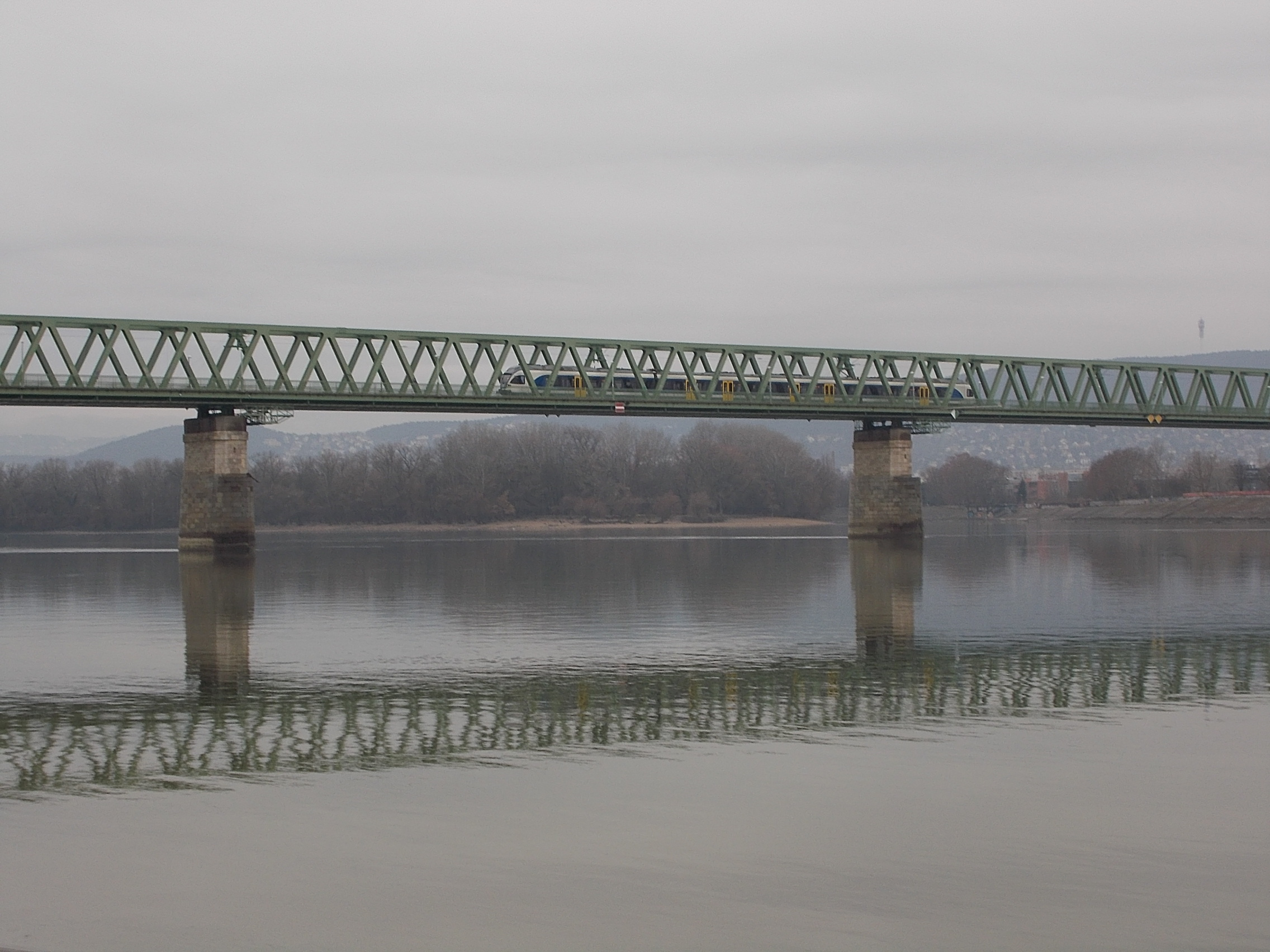 MÁV 415 eastbound train on Újpest railway bridge (west part) and Óbuda Island from Palotai-sziget neighbourhood, 4th District of Budapest.